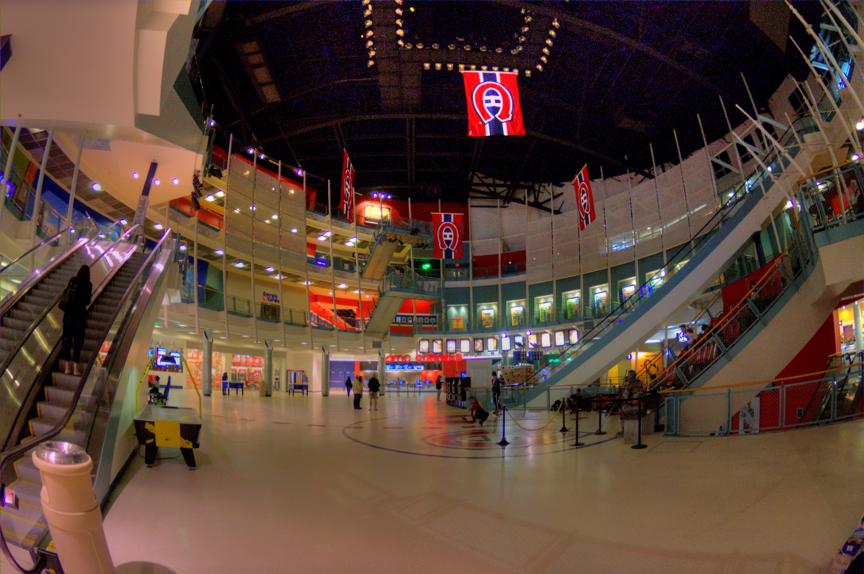 Montreal Forum. View from the inside, on the ground floor.